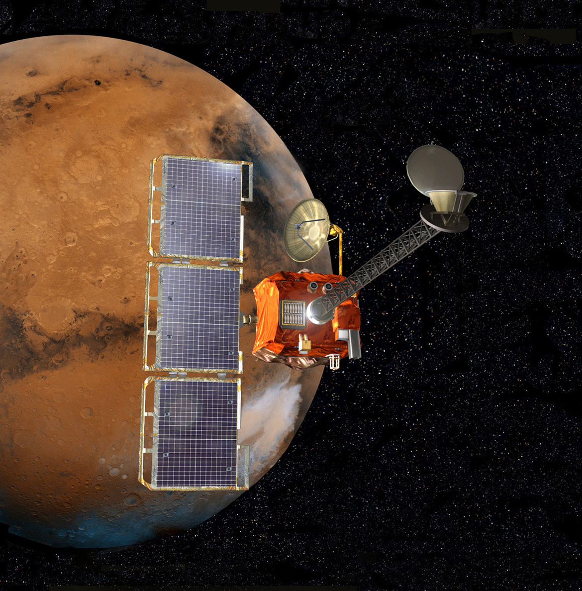 Illustration of the 2001 Mars Odyssey, created when it was known as the Mars Surveyor 2001 Orbiter.